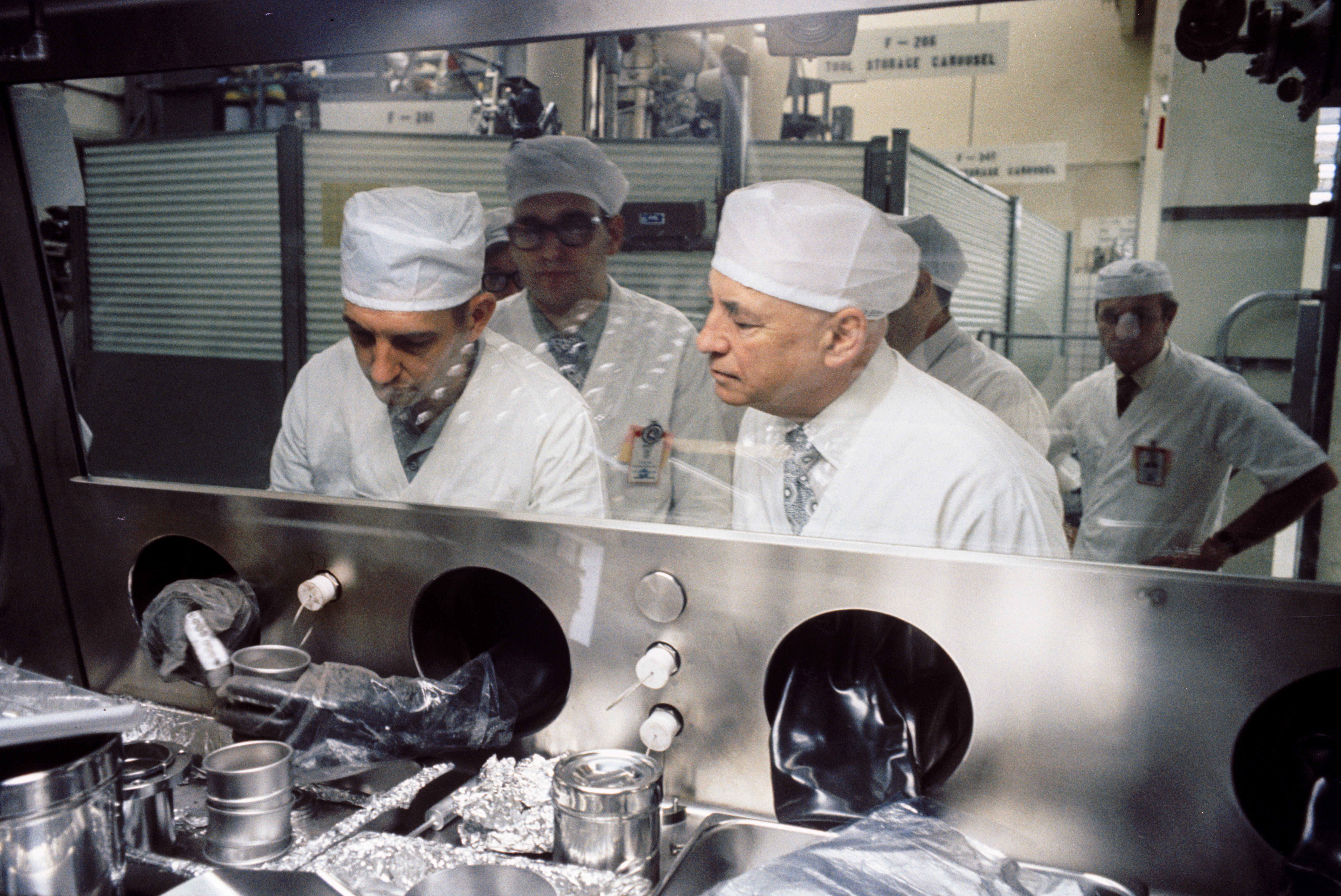 S73-34103 (1973) --- Wearing special germ-free clothing, Dr. Robert R. Gilruth, right, inspects lunar samples collected during the Apollo 17 mission, NASA's final Apollo flight.